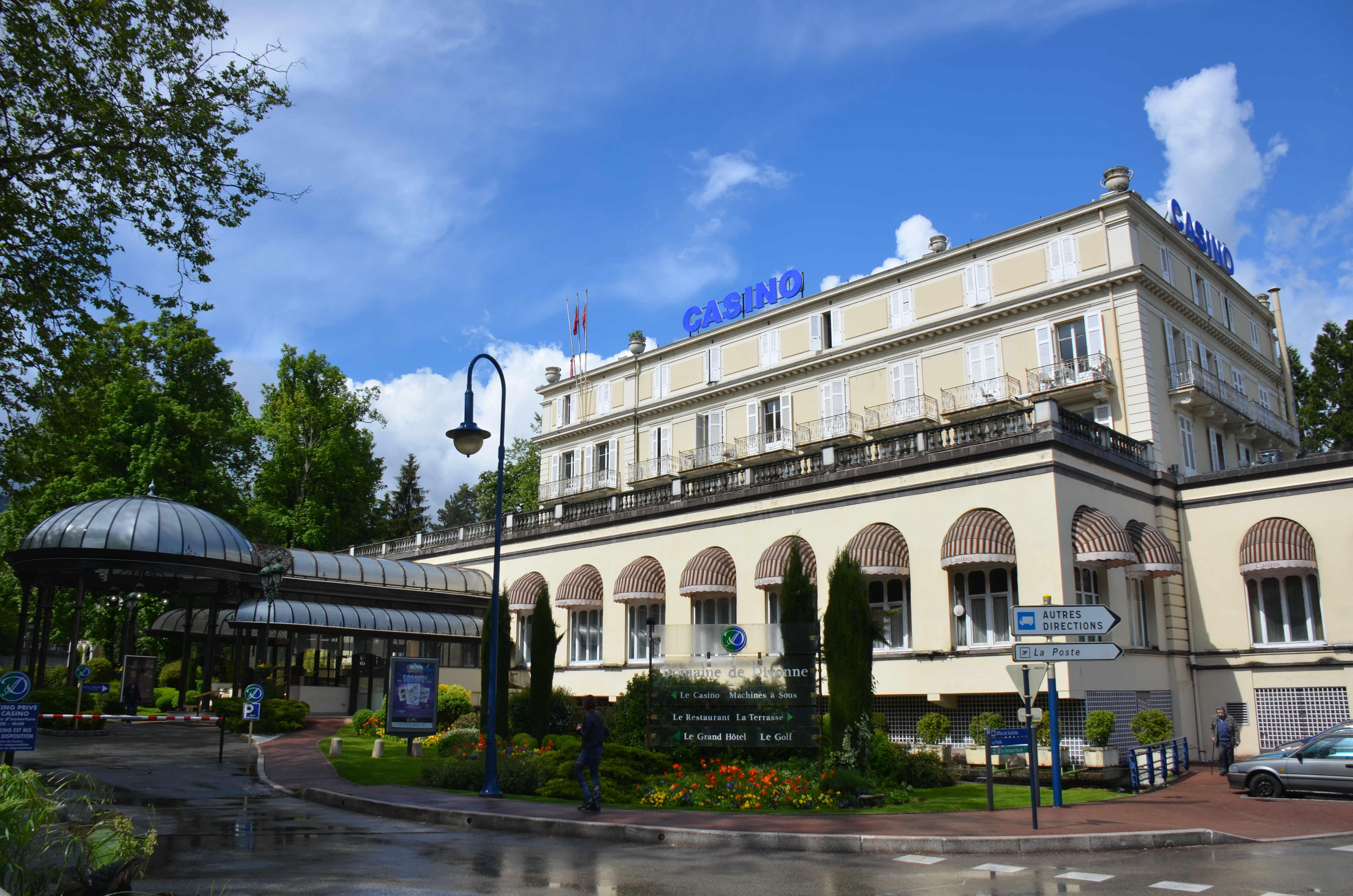 The famous Casino of Divonne-les-Bains at 14 May 2014 after heavy rainfall